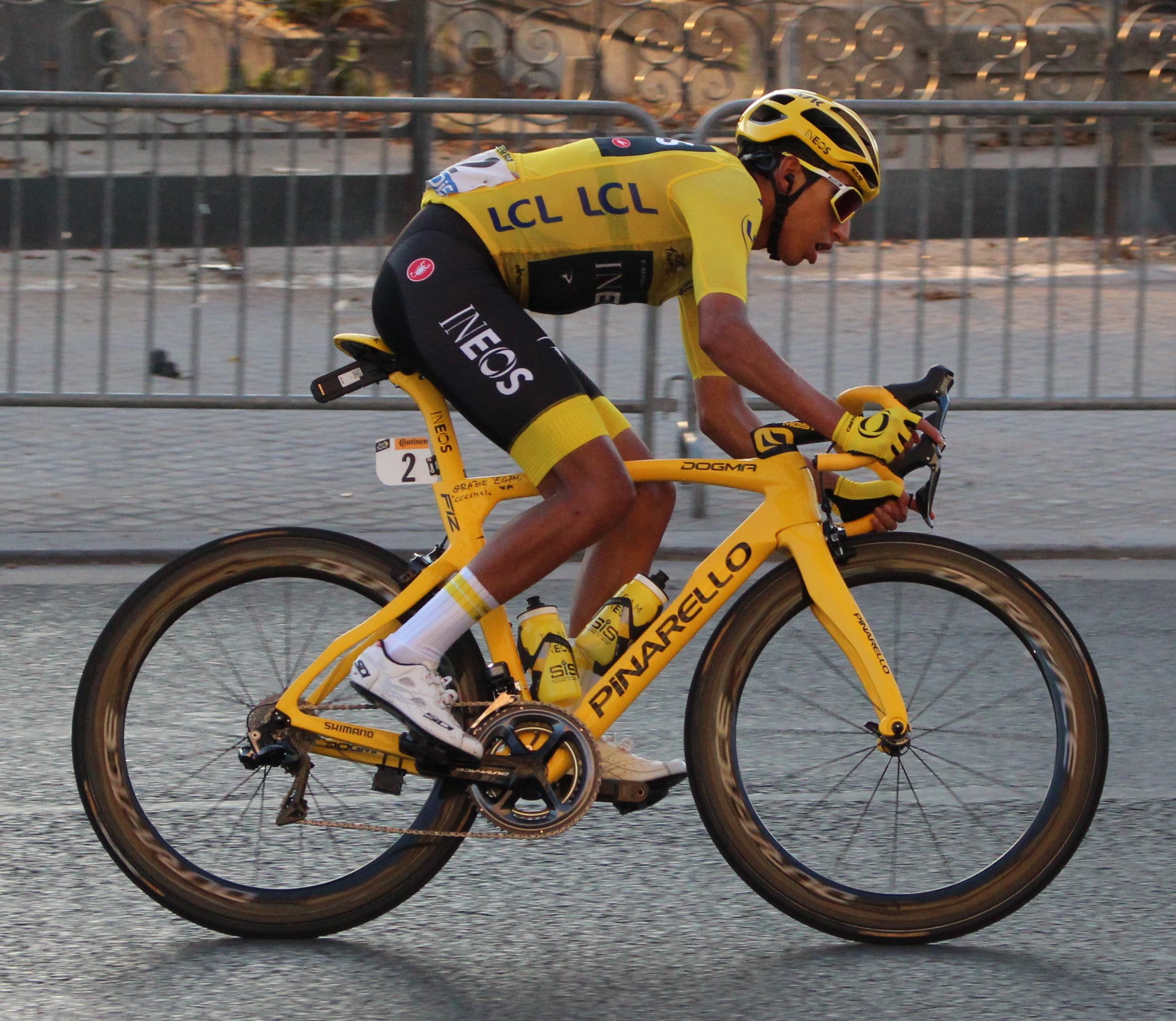 Egan Bernal with the yellow jersey near the final of the last stage (21st) of 2019 Tour de France in Paris along Général Lemonnier avenue.